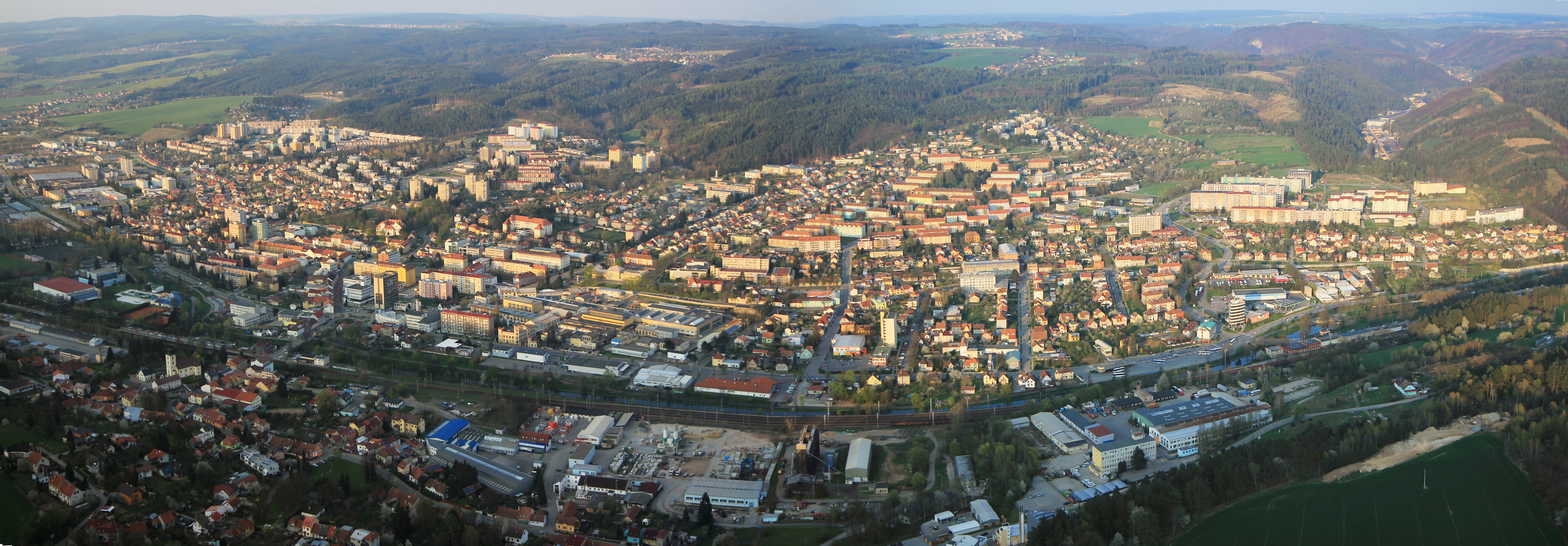 Blansko